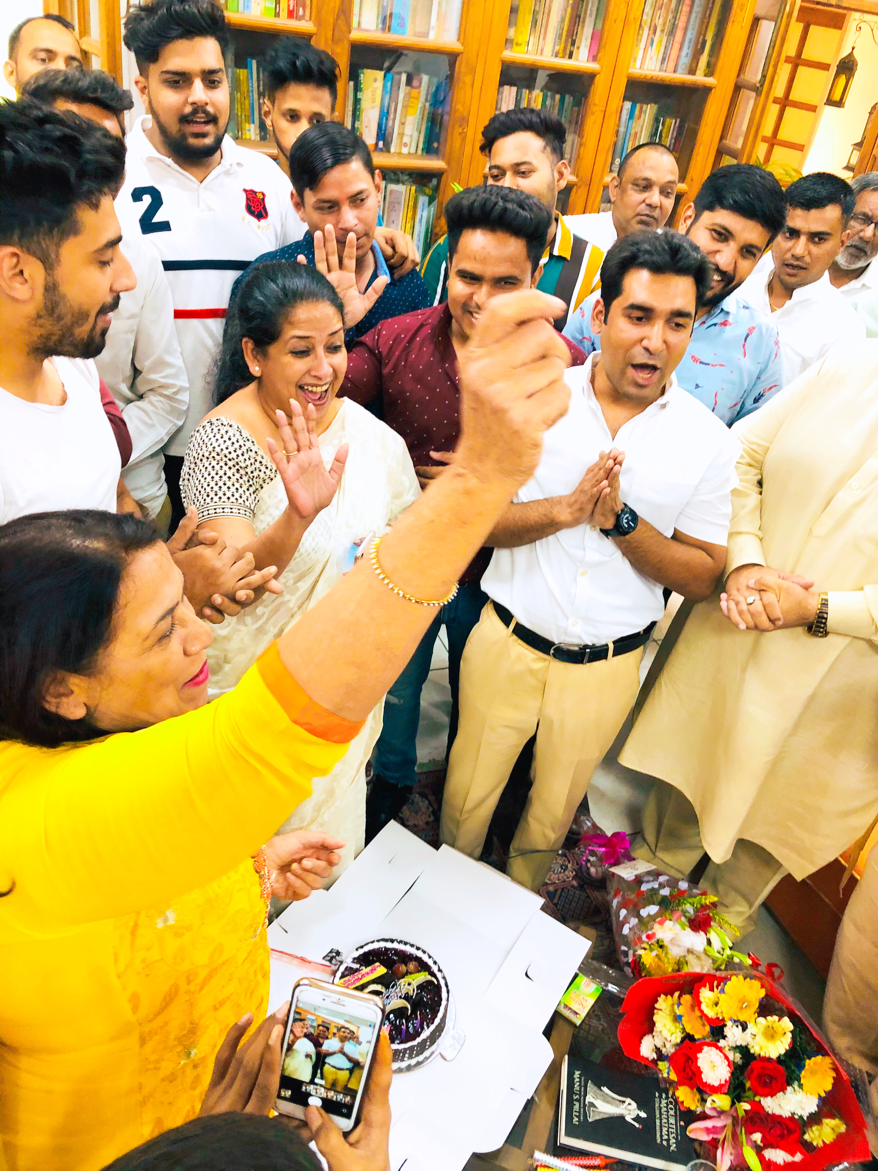 Celebrating her birthday with party workers of the Indian National Congress.